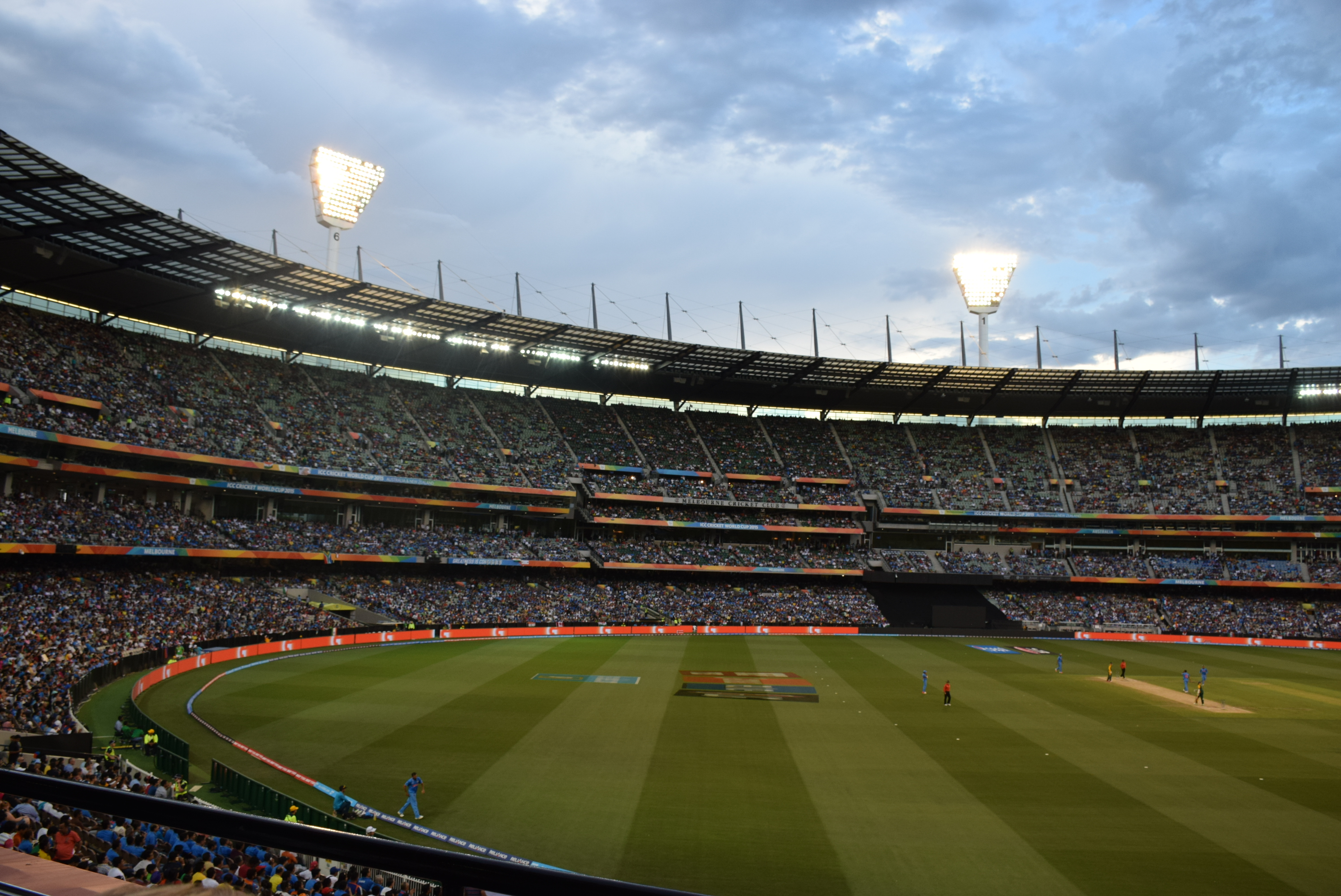 2015 Cricket World Cup: India v. South Africa, Melbourne Cricket Ground